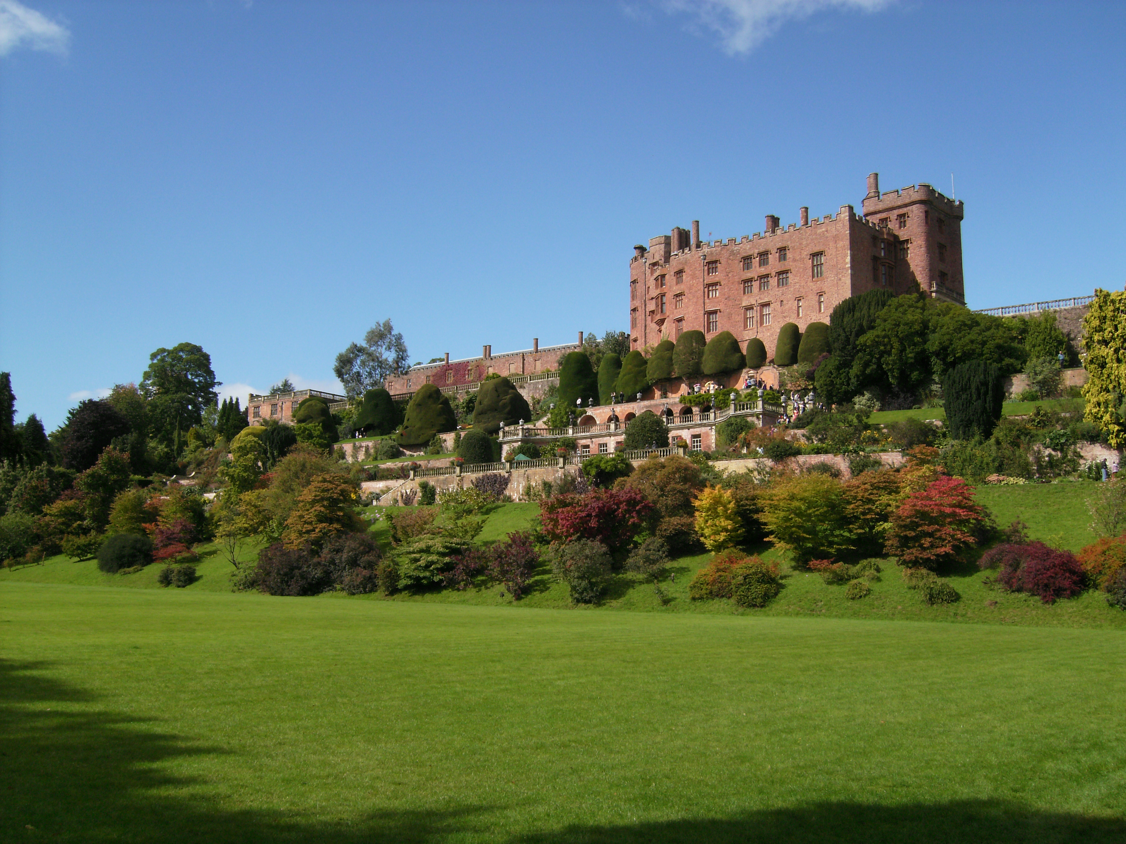 Powis Castle, Puoti Castle, terraced gardens, Powys, Wales.